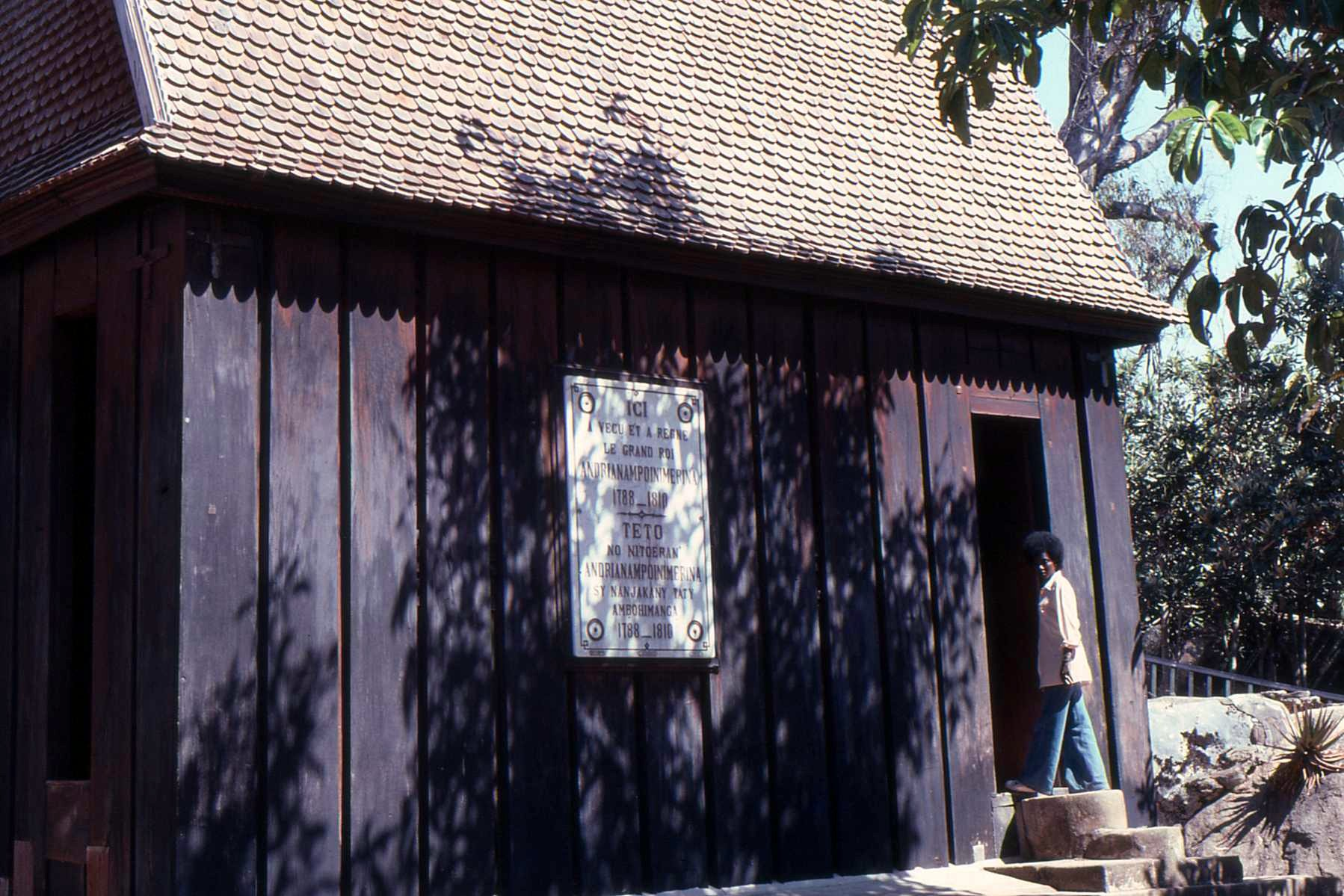 Traditional wooden house inhabited by King Andrianampoinimerina of the Kingdom of Imerina in Ambohimanga Madagascar